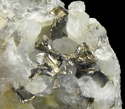 Sylvanite, Quartz Locality: Cripple Creek, Cripple Creek District, Teller County, Colorado, USA (Locality at ) Size: 4.0 x 3.3 x 2.3 cm. A good representative specimen of the rare Gold Silver Telluride Sylvanite. This piece hosts several small, sharp, highly lustrous, whitish-gold colored, striated, metallic, monoclinic blades on Quartz matrix. The crystals are small (approximately 1-2 mm), but this species is rarely seen for sale on the open market, and is one of the most highly sought after species from this historic Gold mining district. Ex. Richard Kosnar Collection.